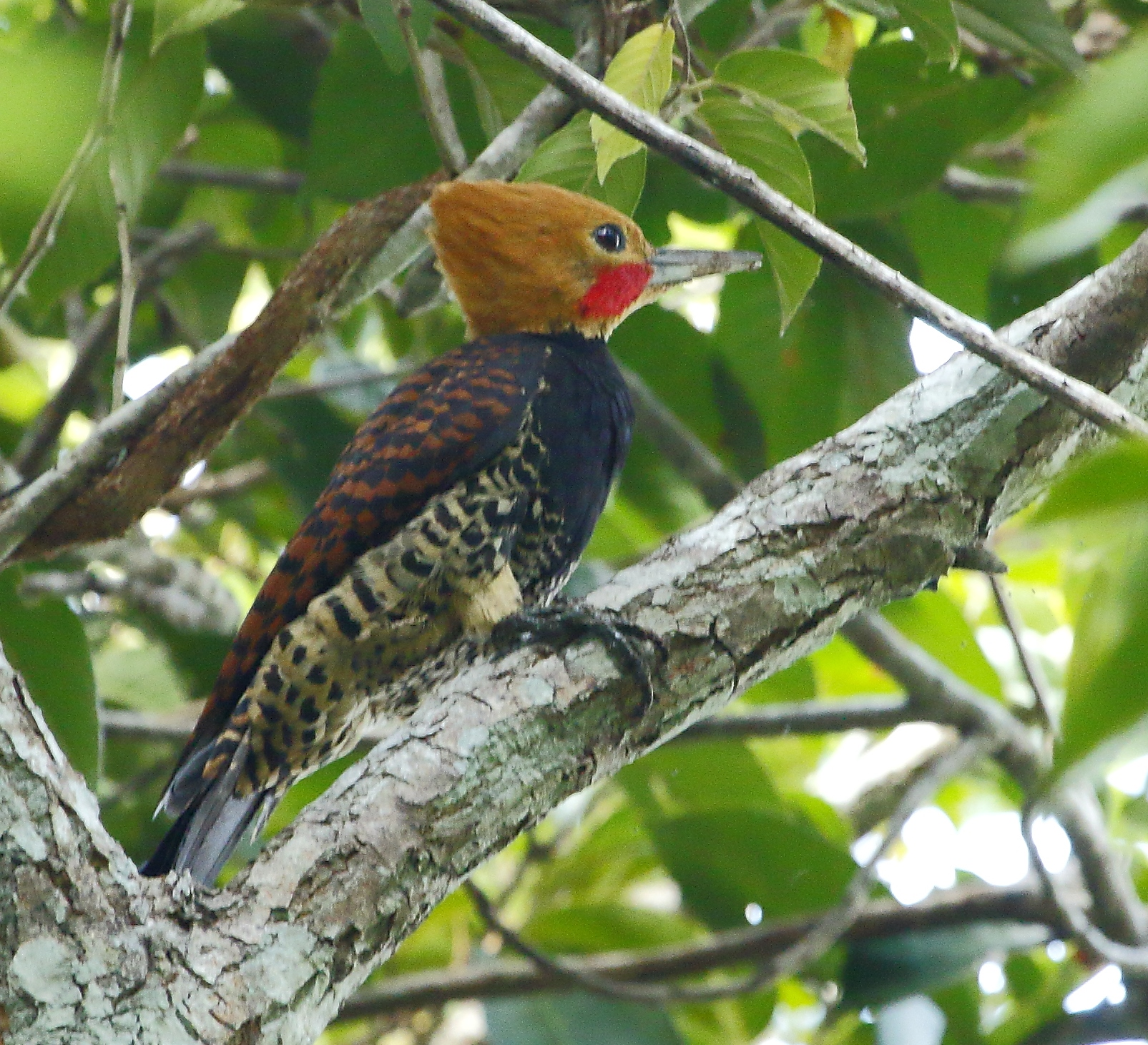 Ringed woodpecker (male) at Vale Natural Reserve, Linhares - ES - Brasil